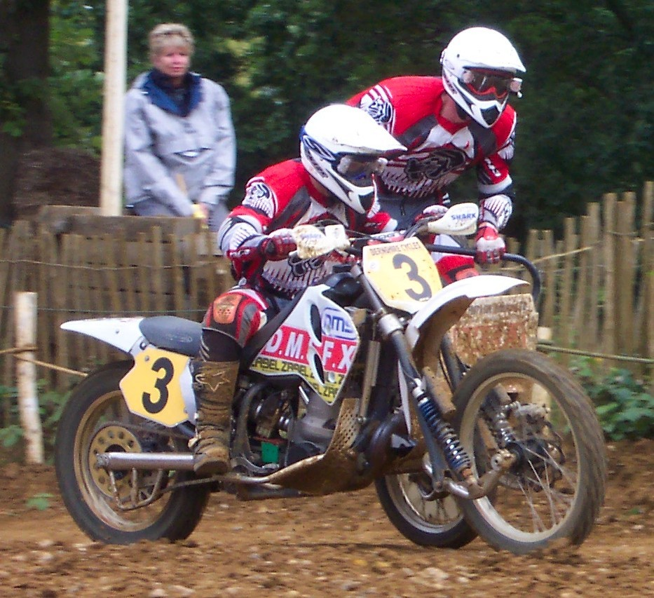 Sidecar Motocross (Sidecarcross), Sidcup & DMCC's July MX 2004 at Canada Heights, Kent, UK. A round of the British Sidecar Clubman's Championship. No 3, Martin Guilford and Colin Dunkley.